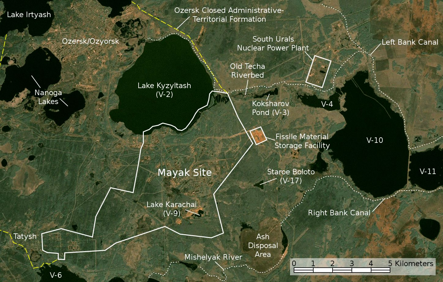 Satellite image/map of the Mayak nuclear facility, the closed town of Ozyorsk/Ozersk (Chelyabinsk-65), different lakes and reservoirs, and the South Urals nuclear power plant. Based on a screenshot from NASA World Wind (Landsat Global Mosaic visual layer), color corrected.